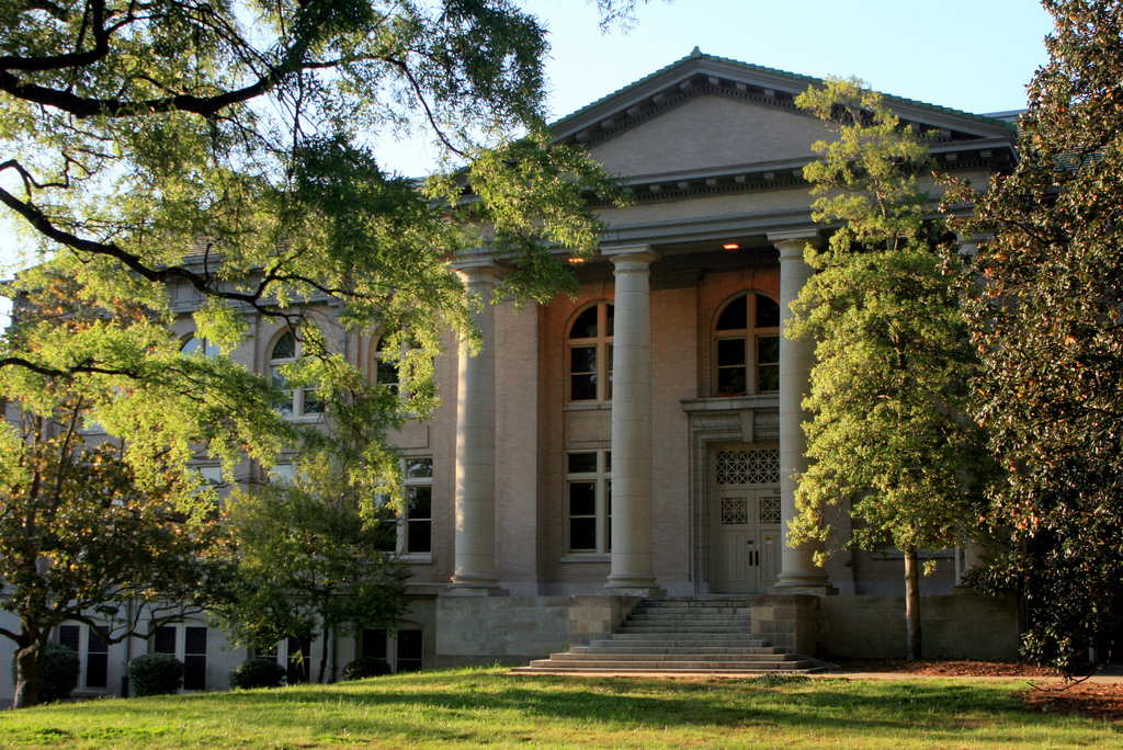 West Duke Building on Duke University's East Campus in Durham, North Carolina.